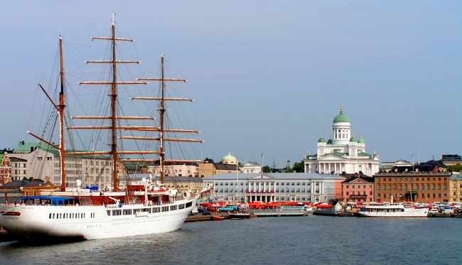 Downtown Helsinki from the sea